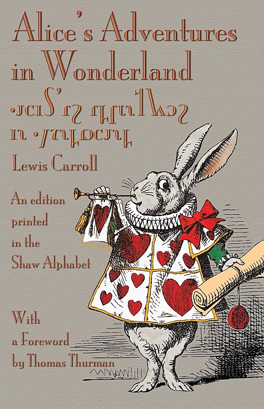 Lewis Carroll: Alice's Adventures in Wonderland, Cathair na Mart 2013 - transcription in the Shaw alphabet - front cover